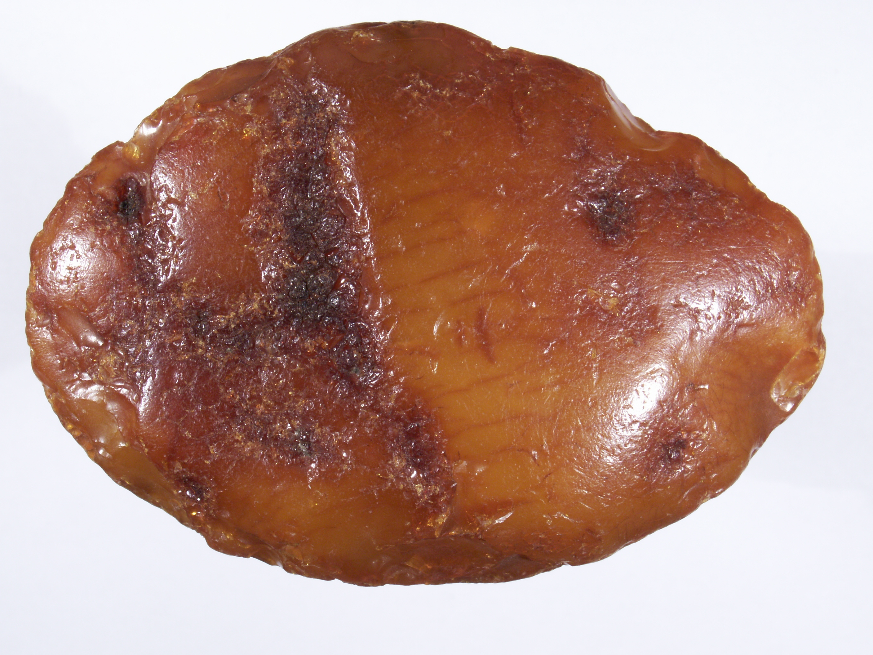 Amber from Bitterfeld, succinite, Bastard